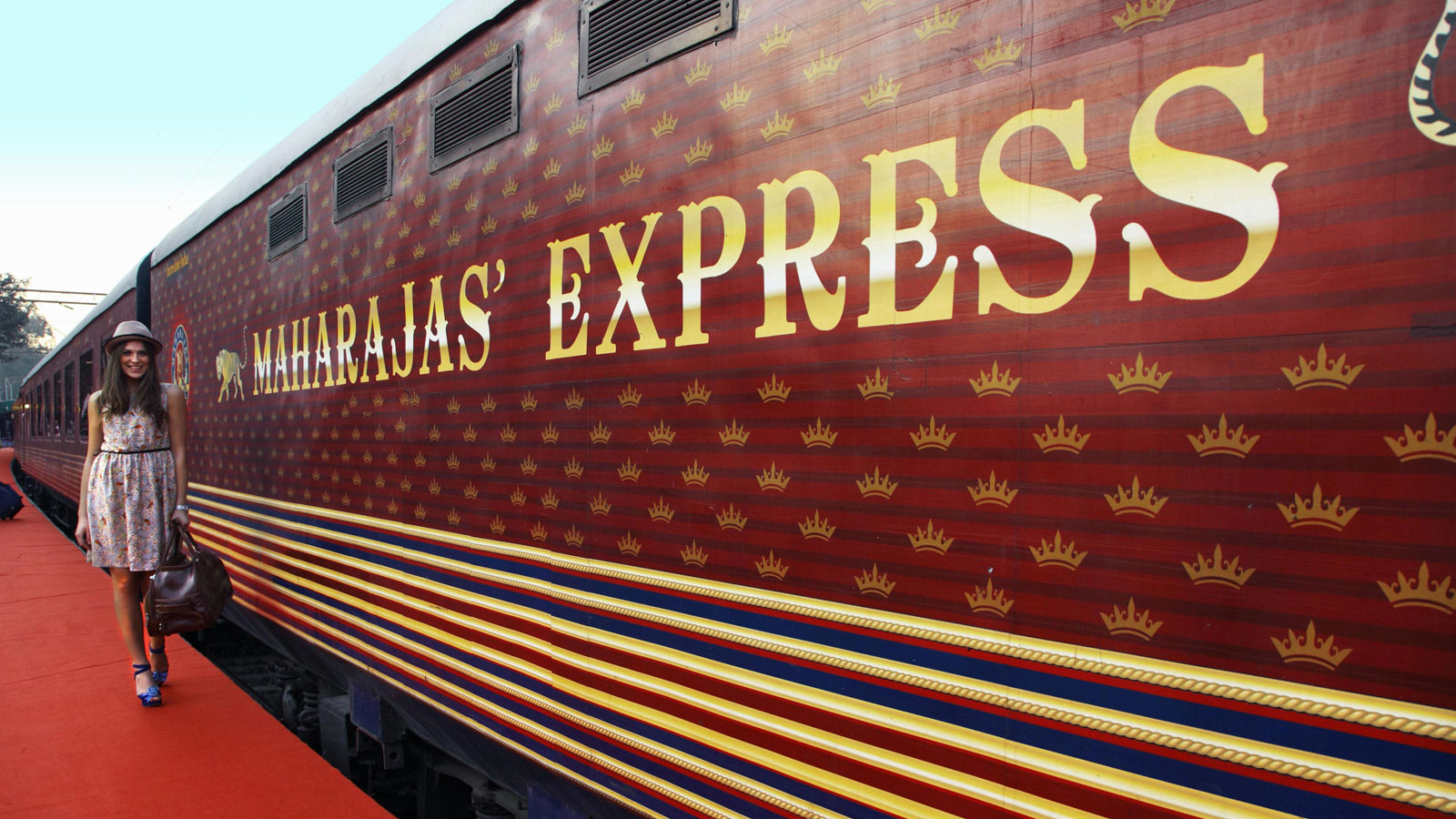 Maharajas' Express de uma iniciativa da IRCTC redefinindo a experiência de viagem de trem de luxo na Índia. Uma viagem ao esplendor da Incredible India cultural Herança. For more info plz visit